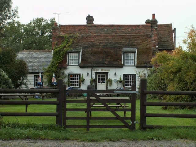 'The Swan' public house at Little Totham, Essex This 16th century pub recently won the title of "National Pub of the Year 2005"